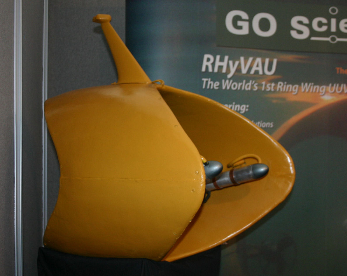 Picture taken of RHyVAU UUV (unmanned underwater vehicle) on display on GO Science's stand during a three-day exhibition in Southampton, UK